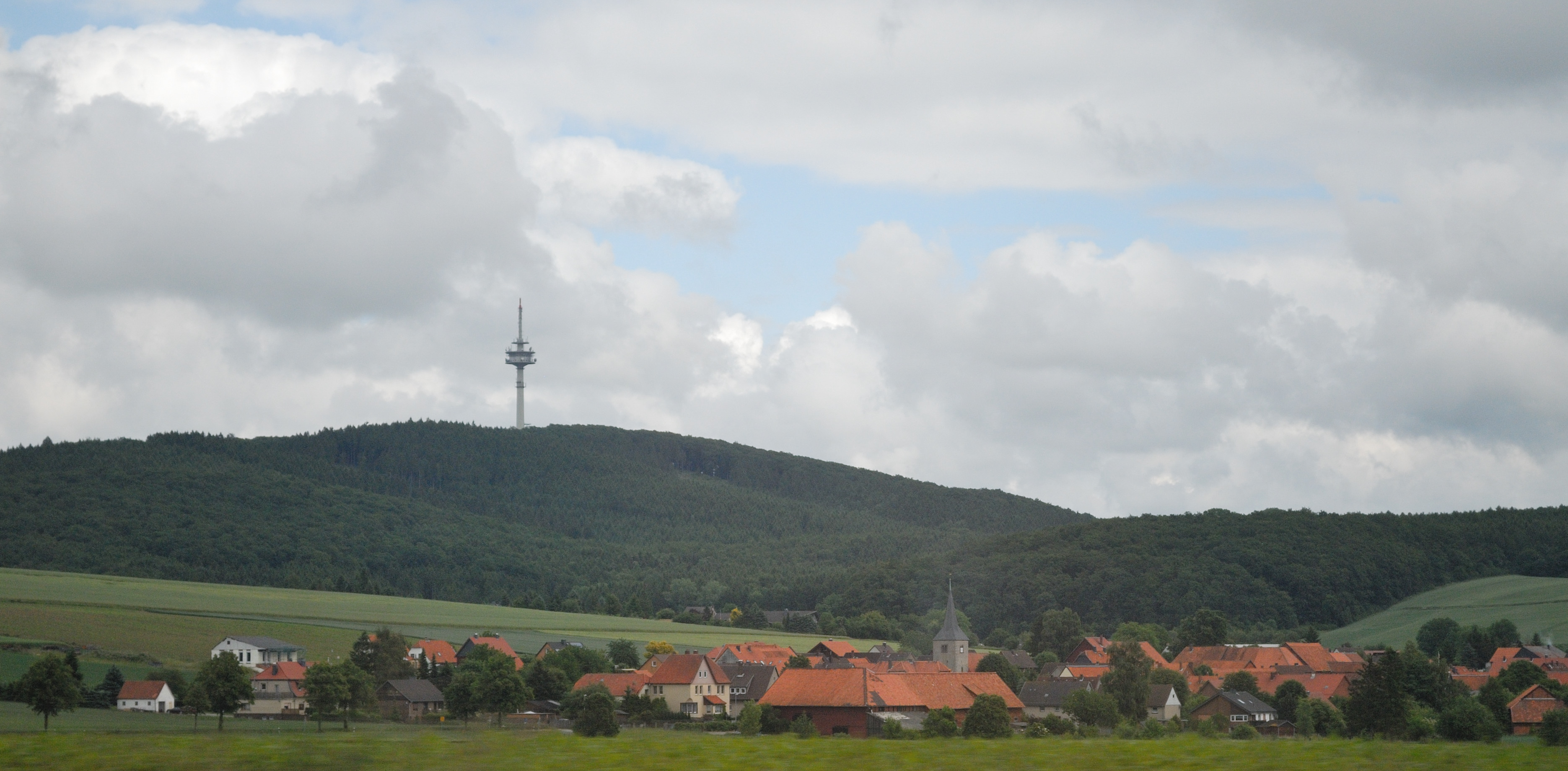 Radio tower Sibbesse. Image taken from an ICE train.